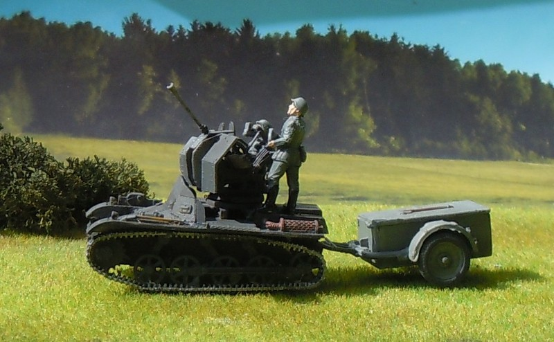 Model of a Flakpanzer I. More pics of the same model are on